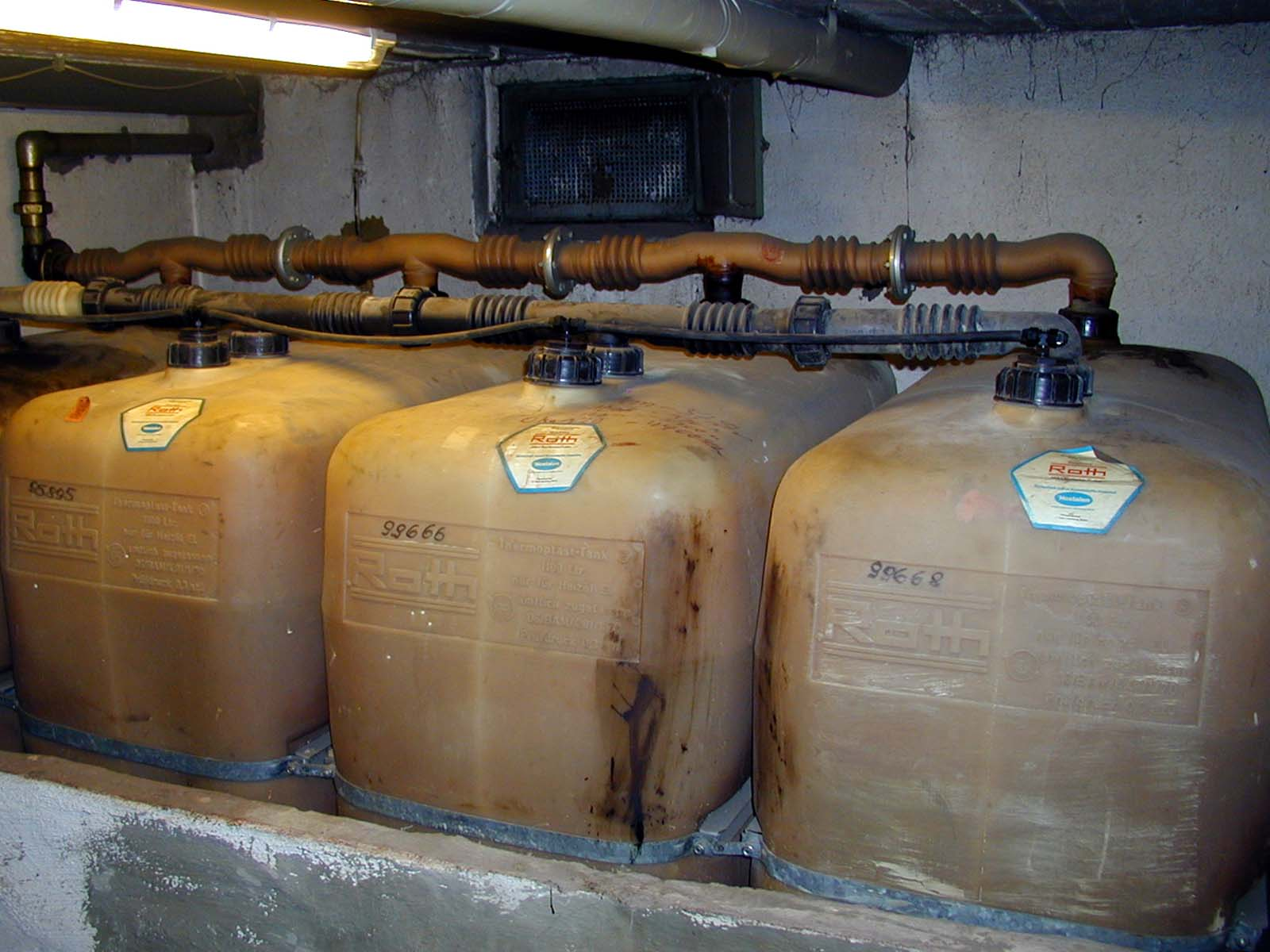 Four plastic Heating Oil Tanks Author: Maschinenjunge Licence: cc-by-sa-2.5